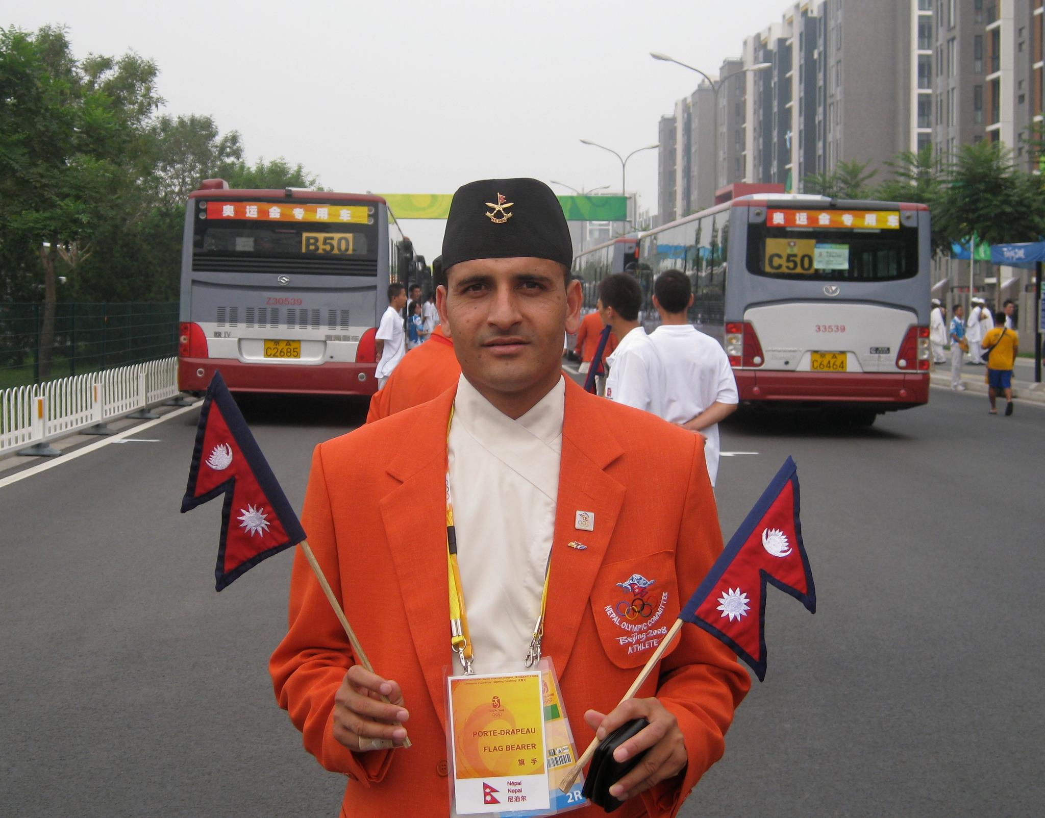 Dipak Bista